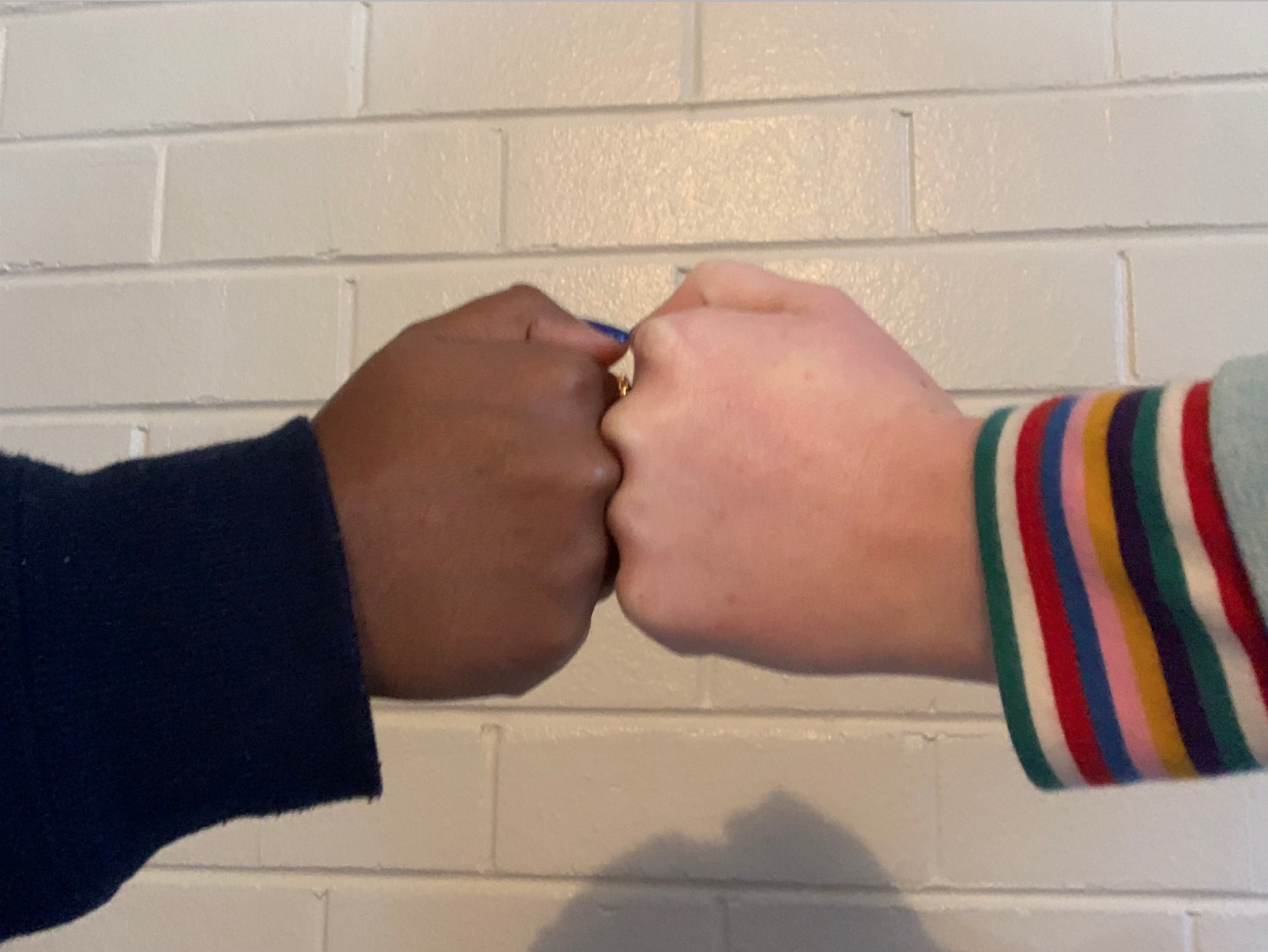 Fist Bump for Equality